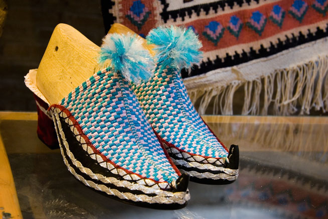 Galesh zanooneh Shoes of Iran